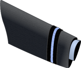 RAF Air Commodore